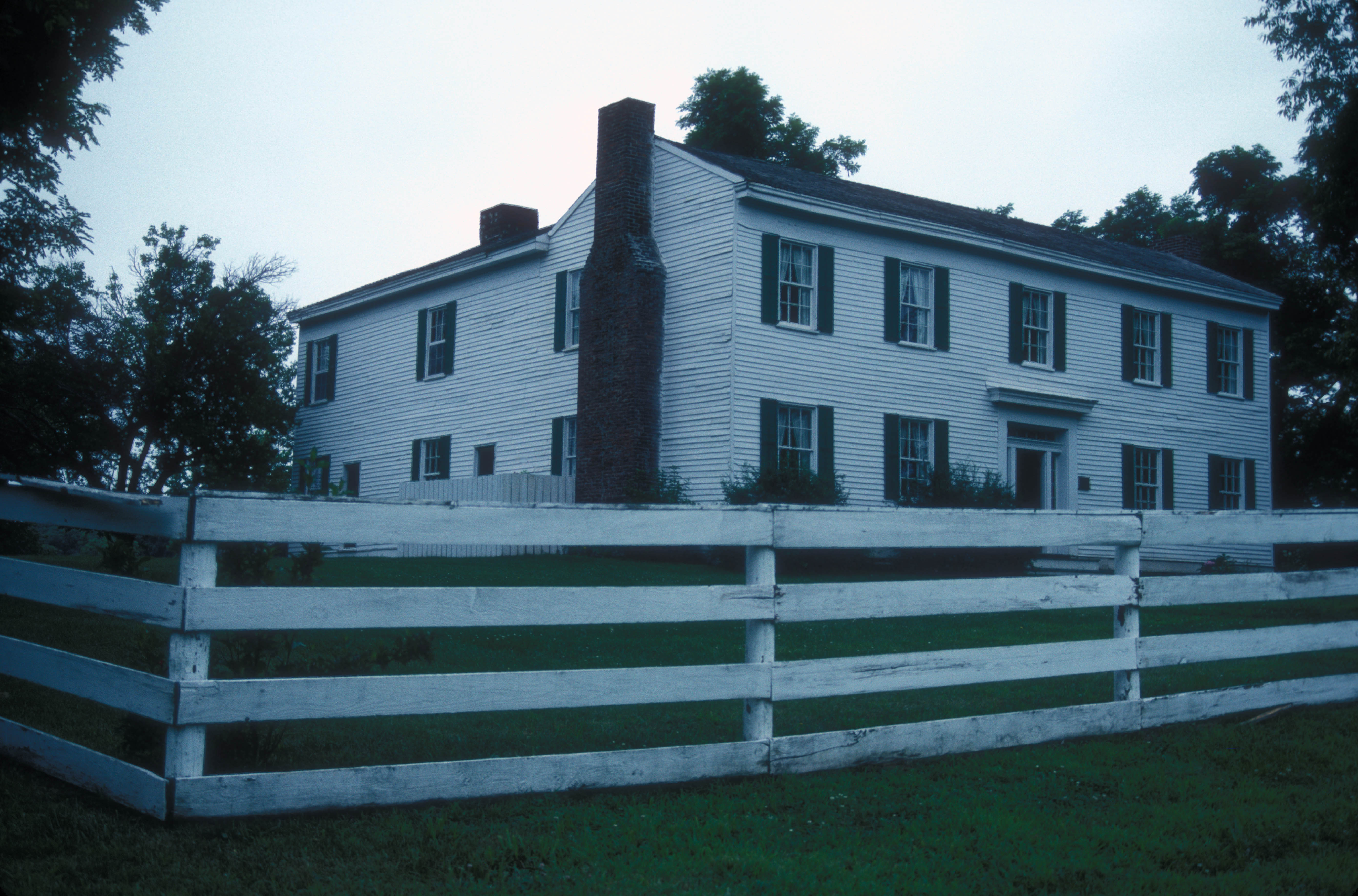 HERE LIVED MARY JAMES BARR FROM 1900 TO 1921. SHE WAS THE DAUGHTER OF JESSE AND MARRIED A WEALTHY VIRGINIAN. THE HOME IS AN ANTE-BELLUM RURAL MANSION. ALSO KNOWN AS CLAYBROOK PLANTATION